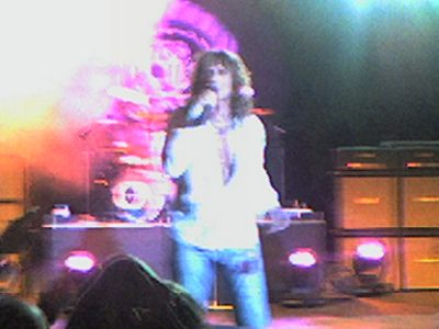 David Coverdale singing with Whitesnake in Ljubljana, Slovenia in Summer 2006